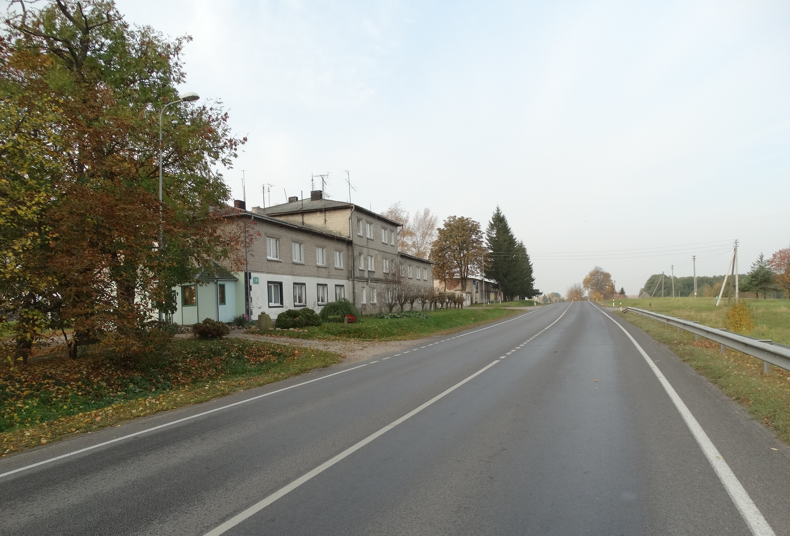 Alvitas, Vilkaviškis District, Lithuania